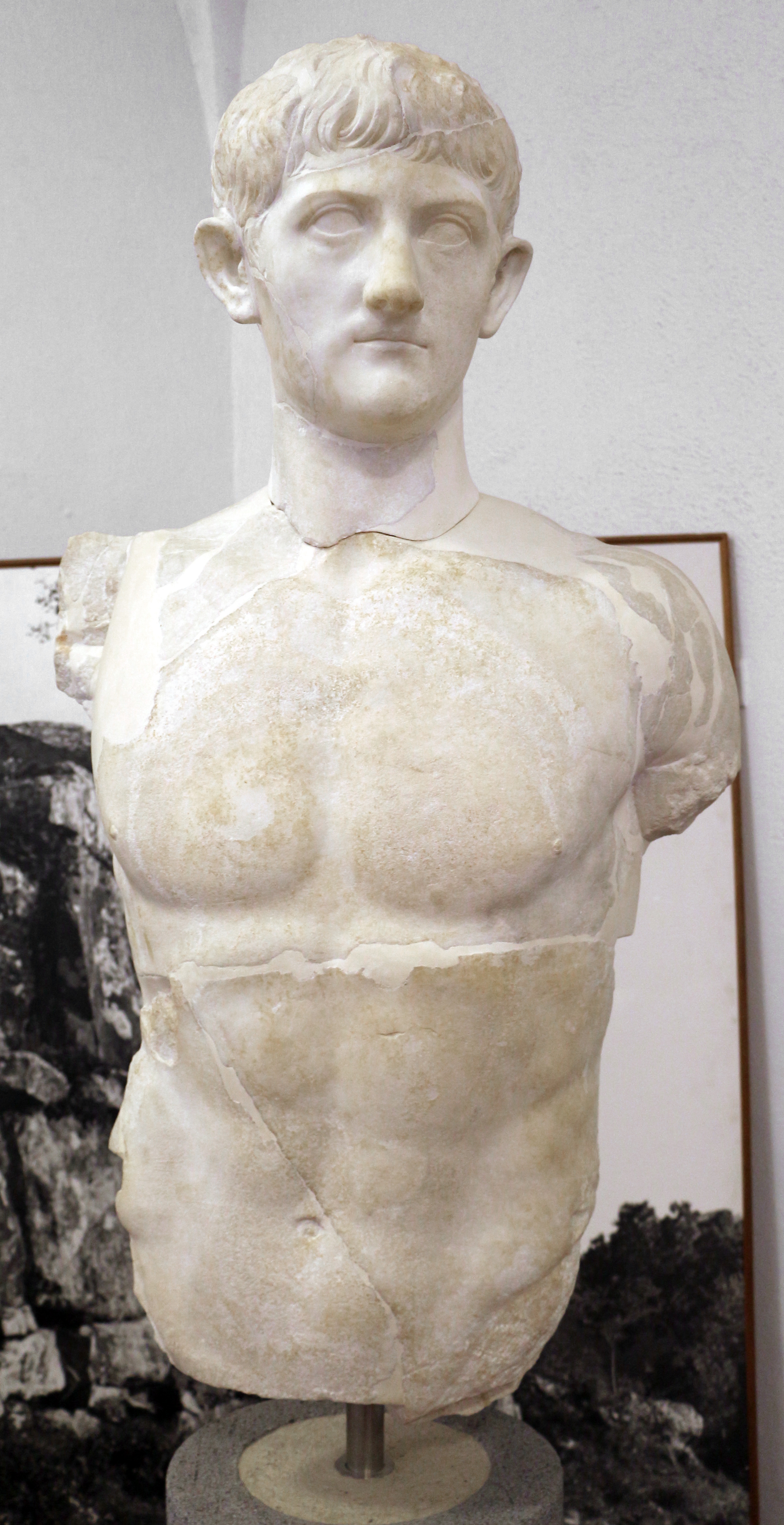 Ancient Roman statues in the Museo archeologico e d'arte della Maremma